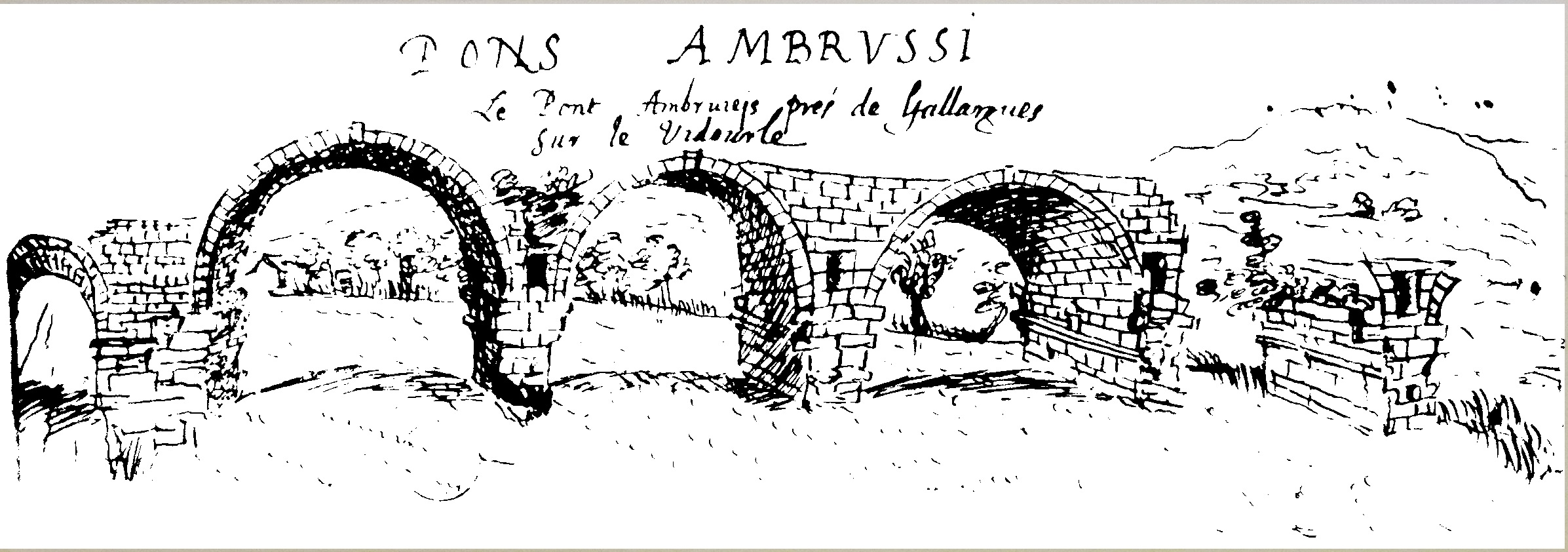 Pont Ambroix on the Vidourle in Herault As drawn by Ann Rulman 1620.